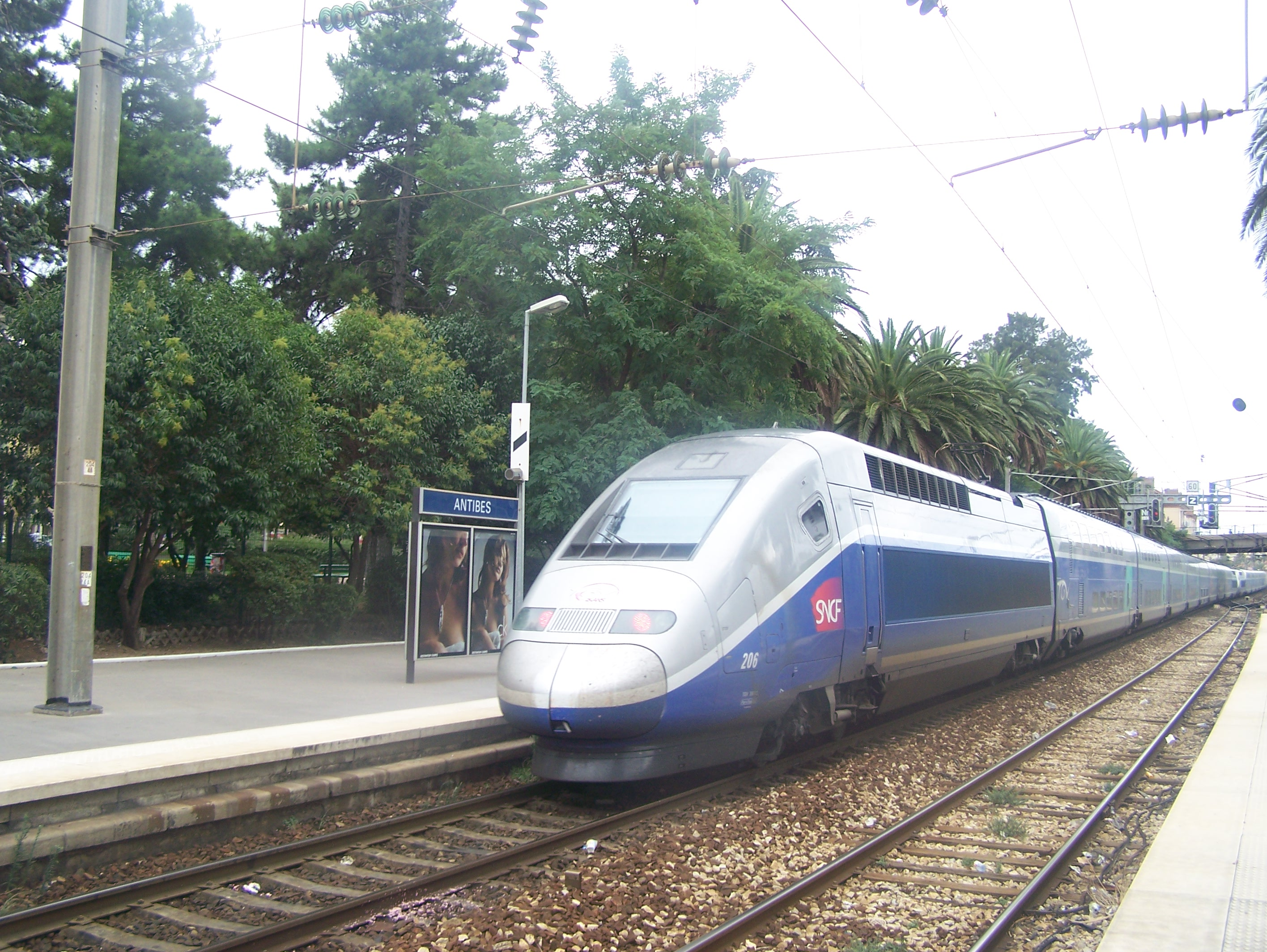 Two TGV Duplex leaving Antibes railway station in the south-east of France.